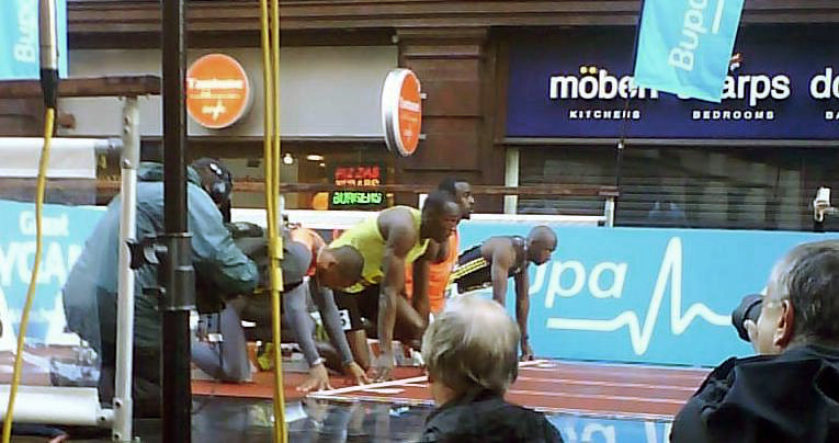 The line up for the final of the men's 150 metres street race at the 2009 Manchester City Games. Featuring (left to right) Rikki Fifton, Usain Bolt, Ivory Williams, and Marlon Devonish. Bolt won with a world best 14.35 seconds.